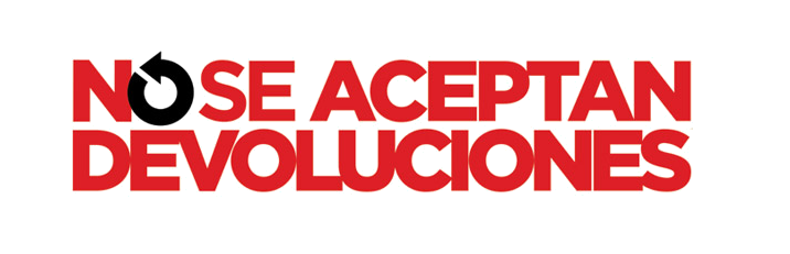 No Se aceptal devoluciones (Instructions Not Included ) logo